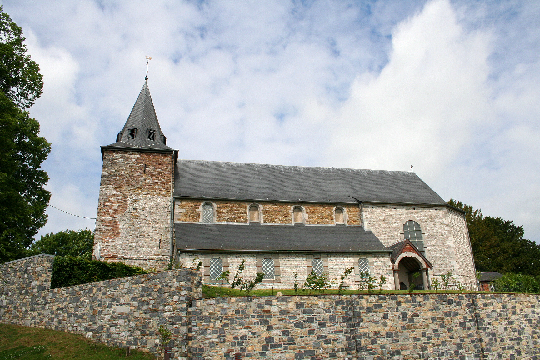 Florée (Belgium), the St. Genevieve church (XVII/XVIIIth centuries).